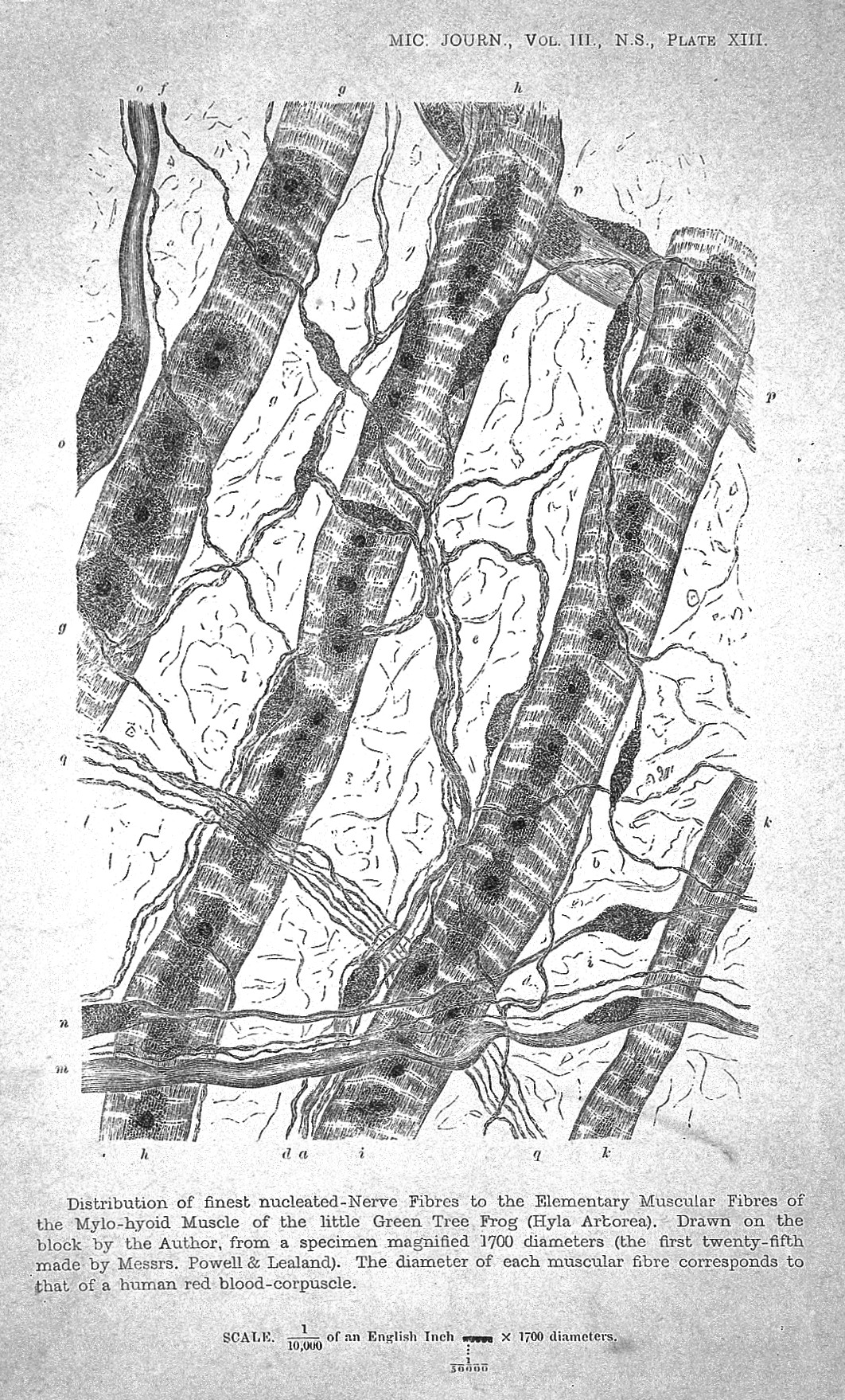 Distribution of finest nucleated nerve fibres to the elementary muscular fibres of the mylo-hysid muscle of the little Green Tree Frog (Hyla Arborea). Magnified 1700 diameters. Wellcome Images Keywords: Microscopy